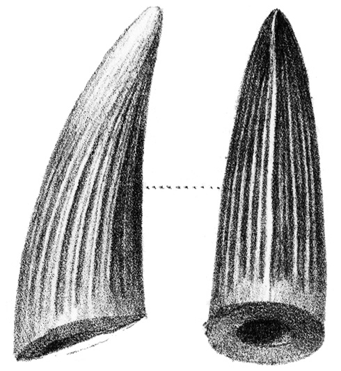 Crown of a tooth of Suchosaurus cultridens ("lævidens"), side and back view.